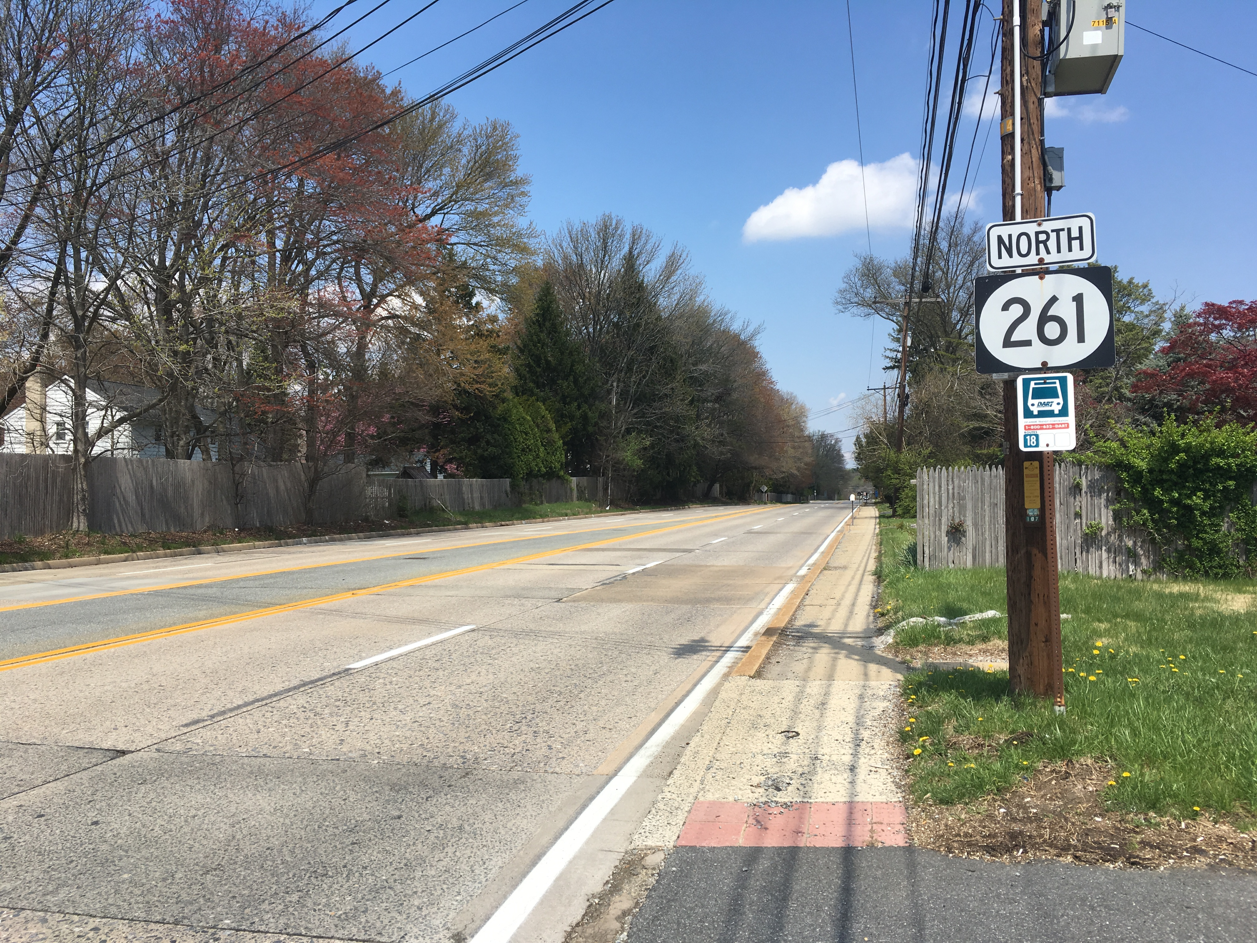 Northbound Delaware Route 261 (Foulk Road) past the intersection with Grubb Road north of Wilmington, Delaware